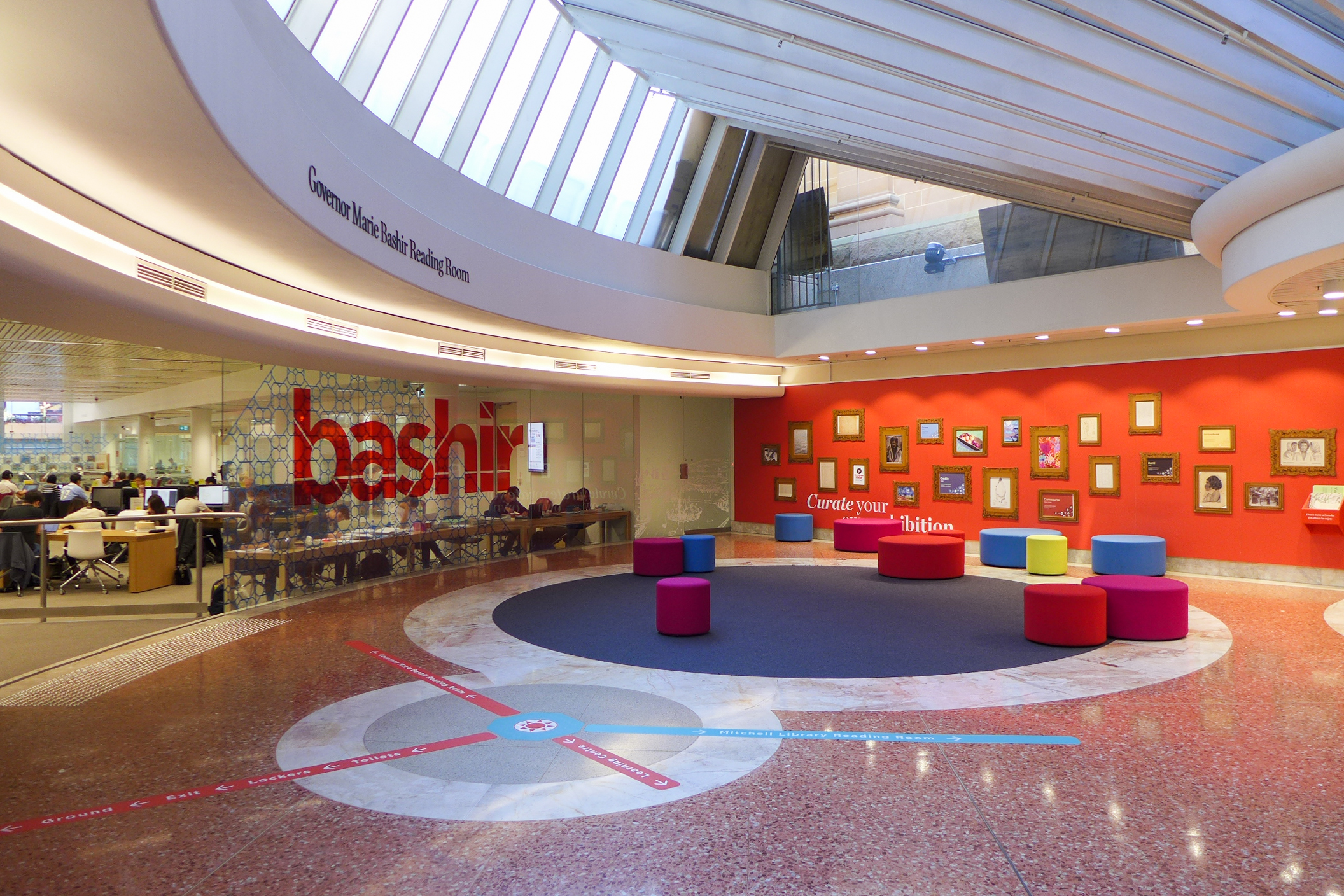 Governor Marie Bashir Reading Room, State Library of New South Wales